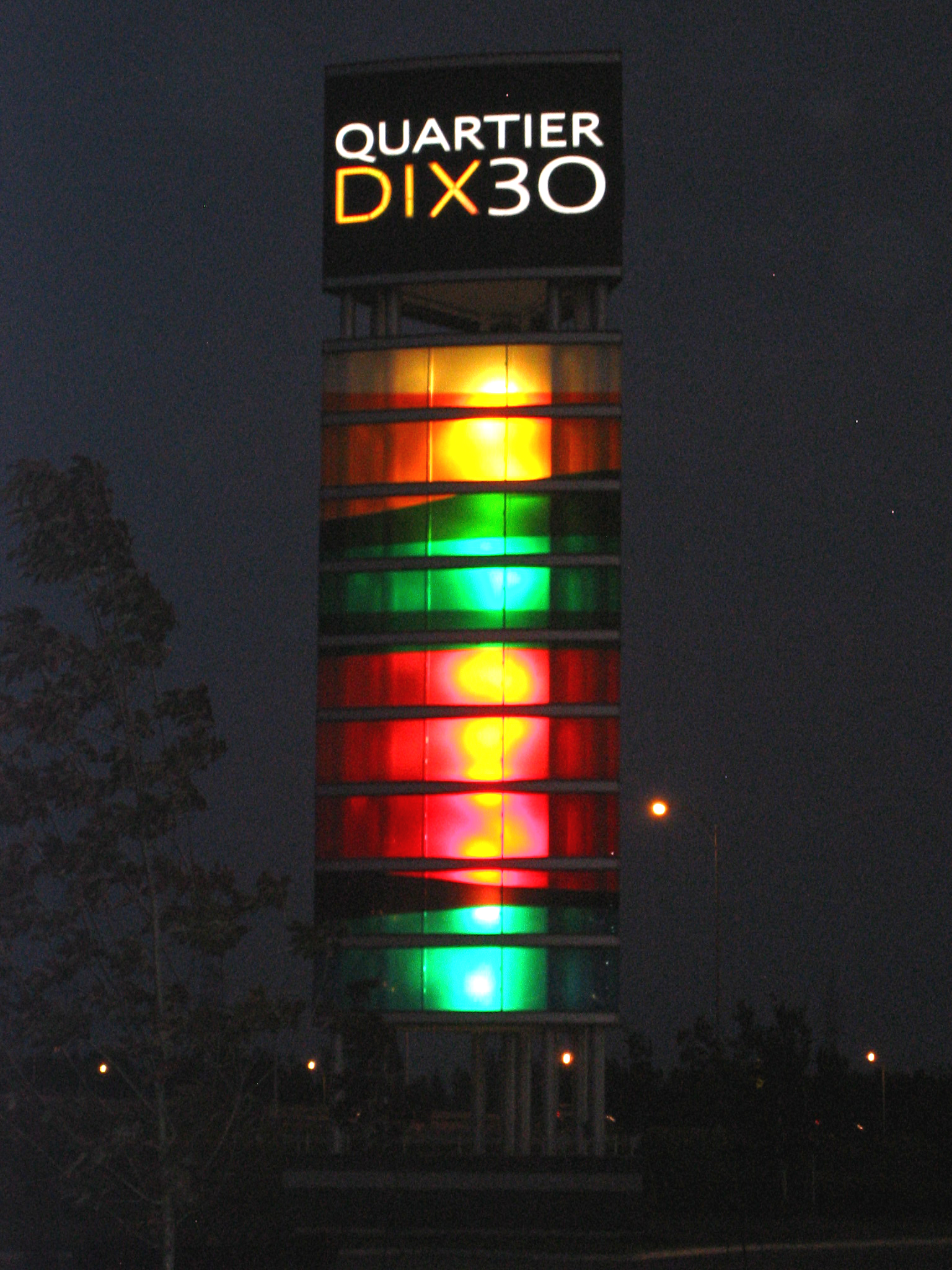 A photo of the illuminated Quartier DIX30 tower, seen at night; it is located at the eastern limits of the Quartier DIX30 development, adjacent to the Autoroute 10-30 cloverleaf. Brossard, Quebec, Canada.